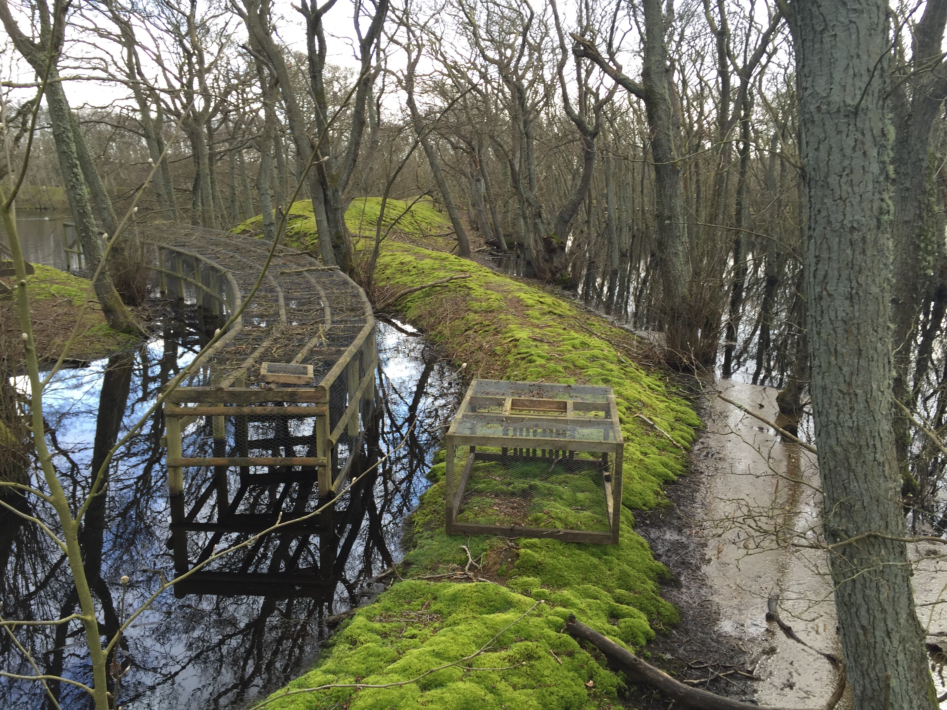 The making of this document was supported by the Community-Budget of Wikimedia Germany. Fangpfeife der Vogelkoje Meeram